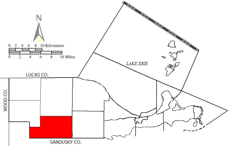 Made by US Census and modified by me